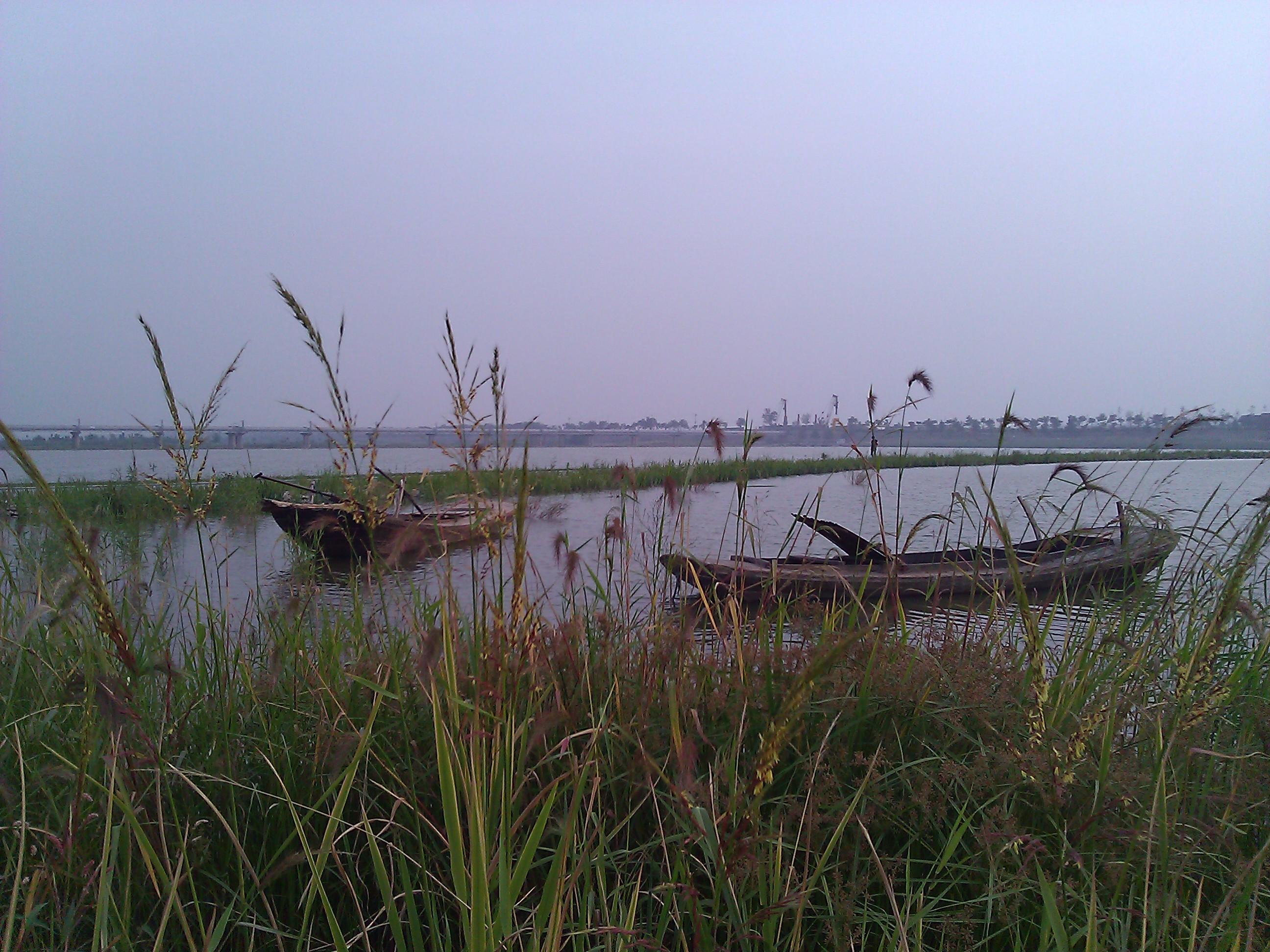 Wanping Lake Southern Section